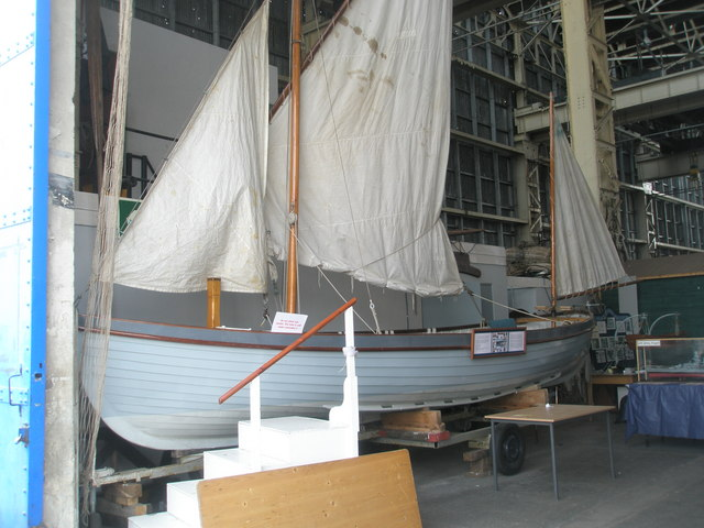 Restored Montagu Whaler within Portsmouth Dockyard